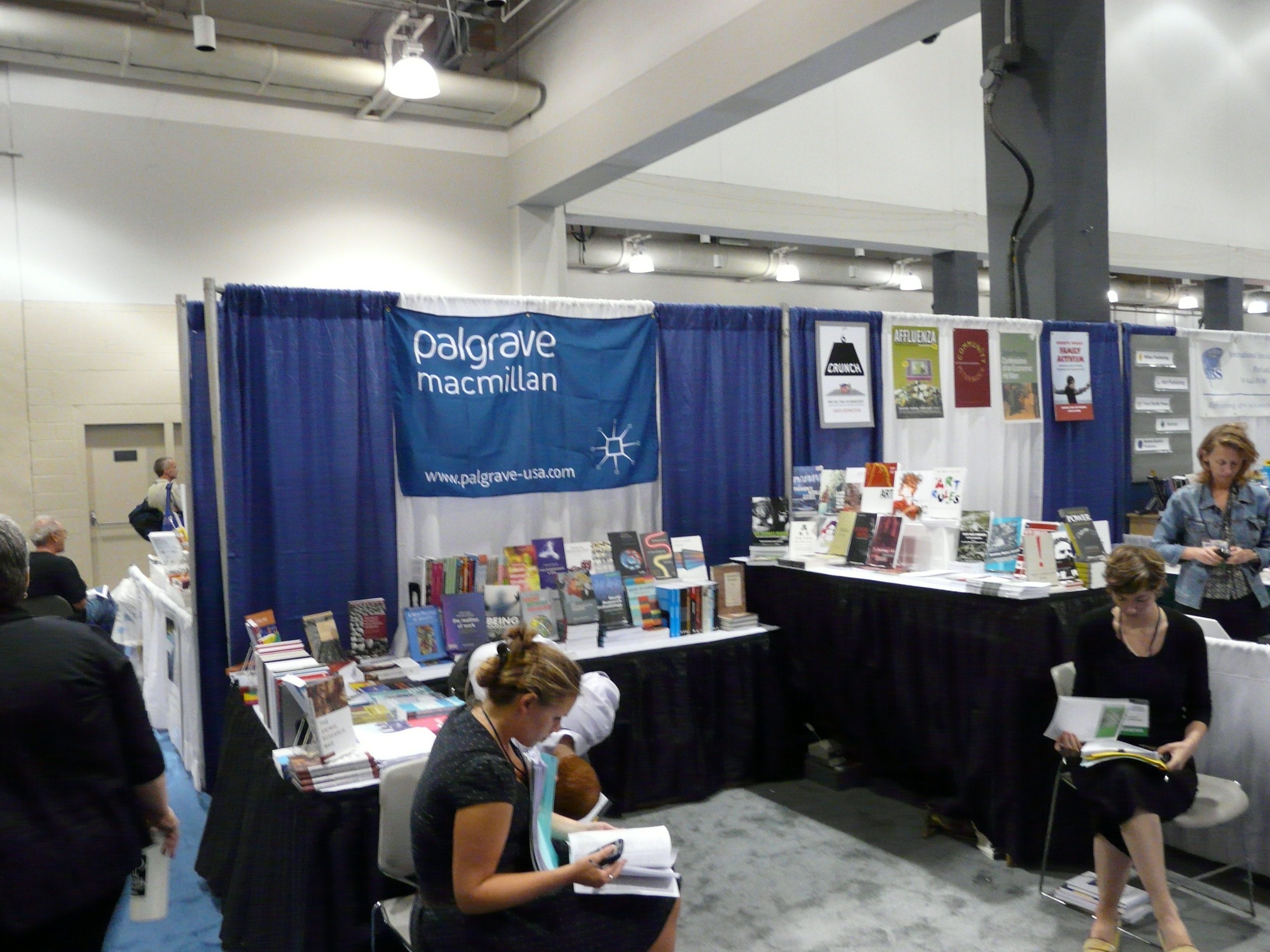 Boston. American Sociological Association conference.